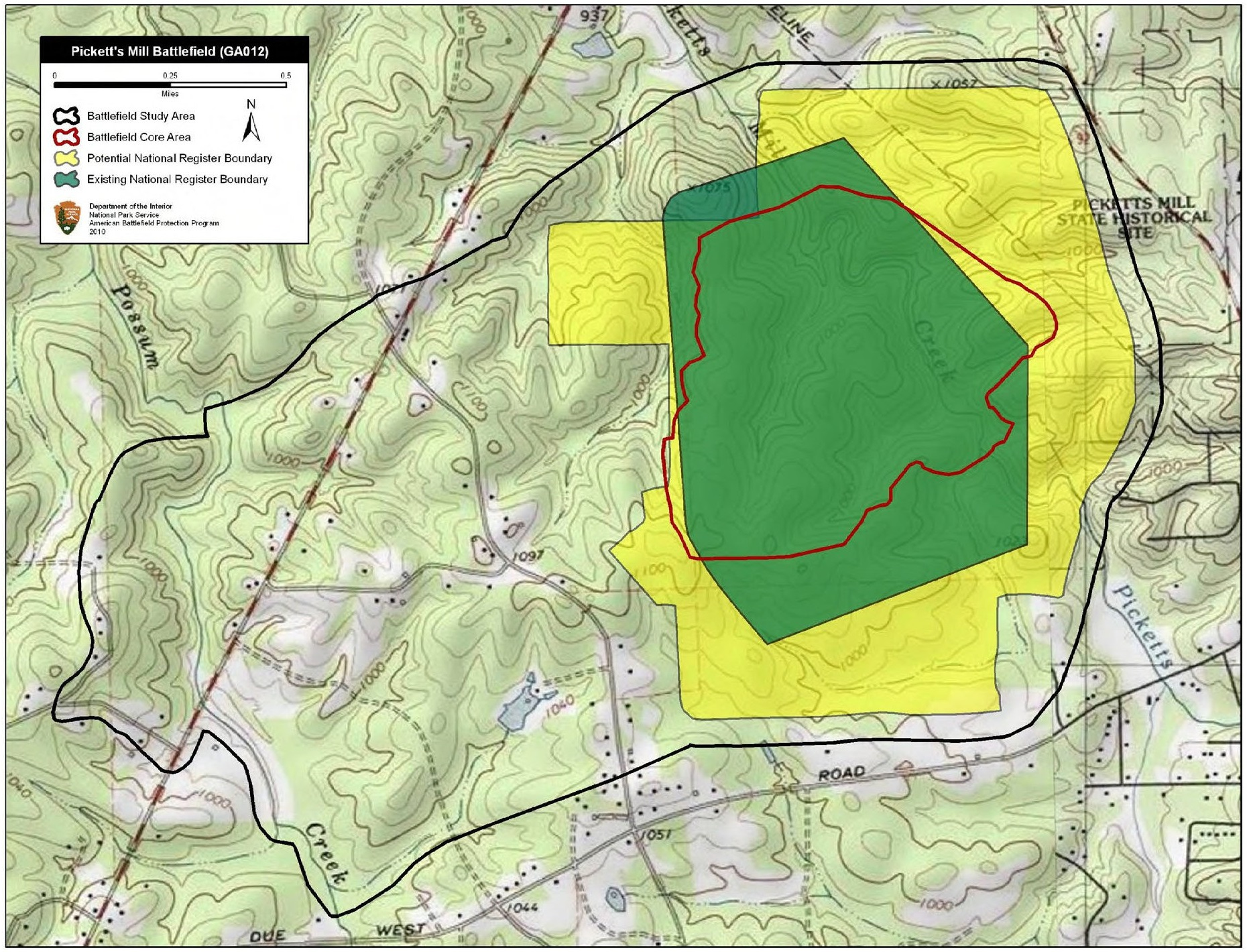 Map of battlefield core and study areas. The study area was expanded slightly to better fit the physical contours of the landscape. The Core Area was reduced from the political boundaries of the state park to only those lands known to be associated with the battle history.